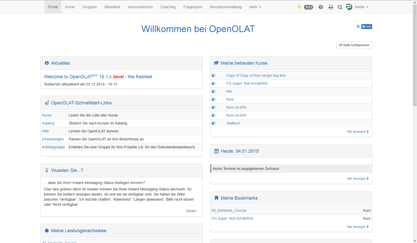 Screenshot of the OpenOLAT portal